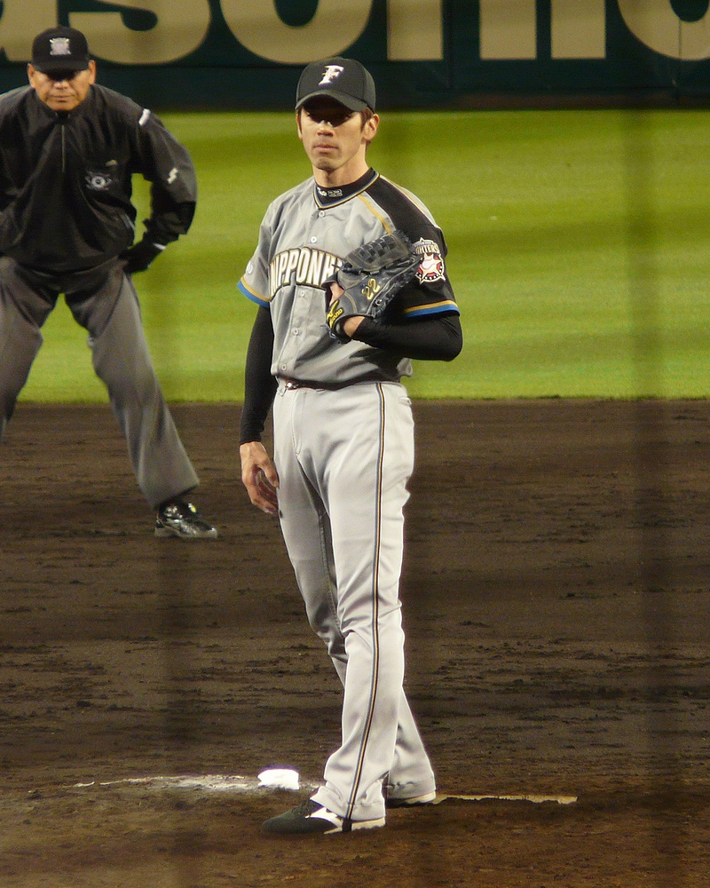 Yoshinori Tateyama, pitcher of the Hokkaido Nippon-Ham Fighters, at Hanshin Koshien Stadium.